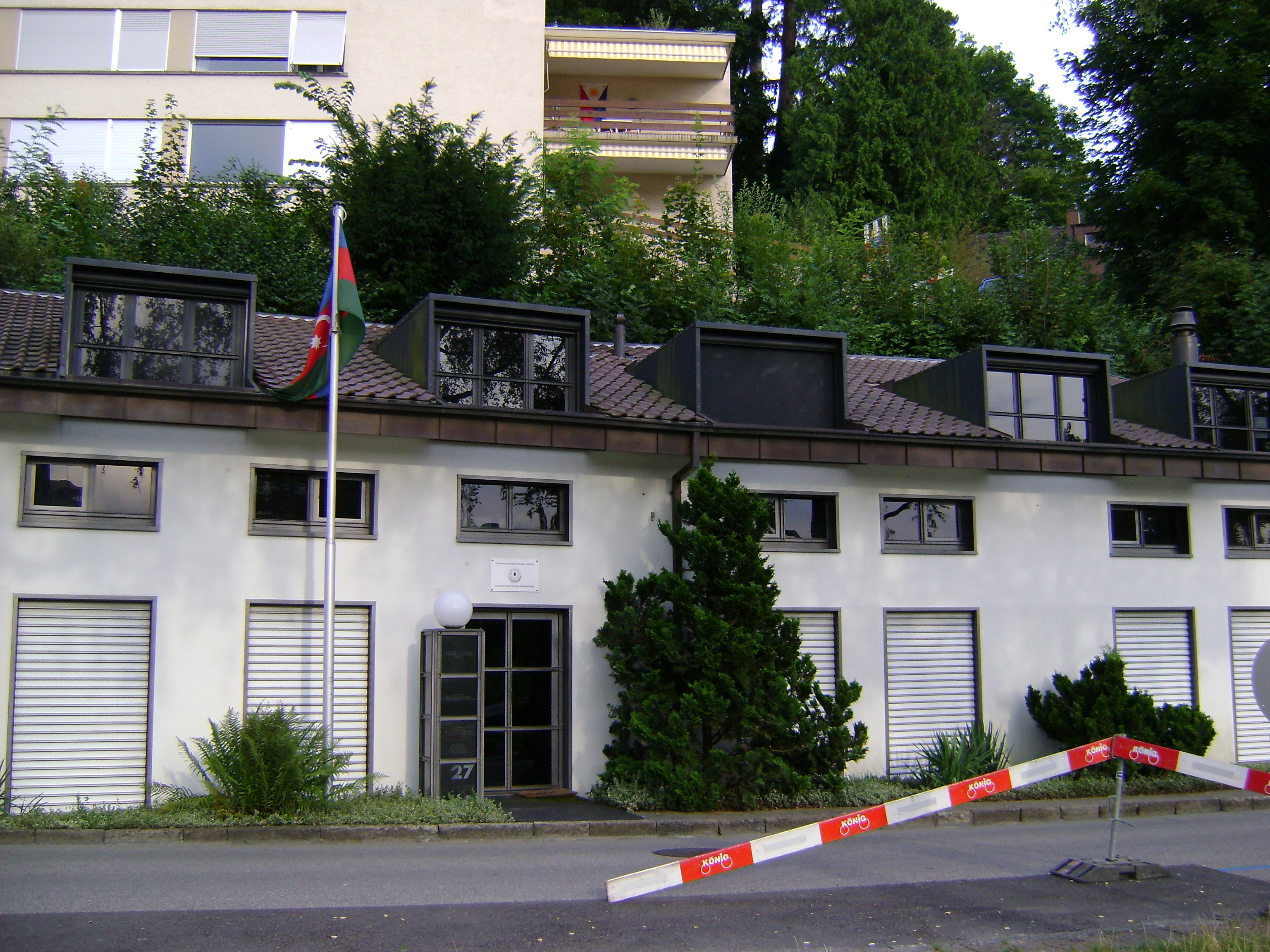 Azerbaijani embassy in Berne (Switzerland)